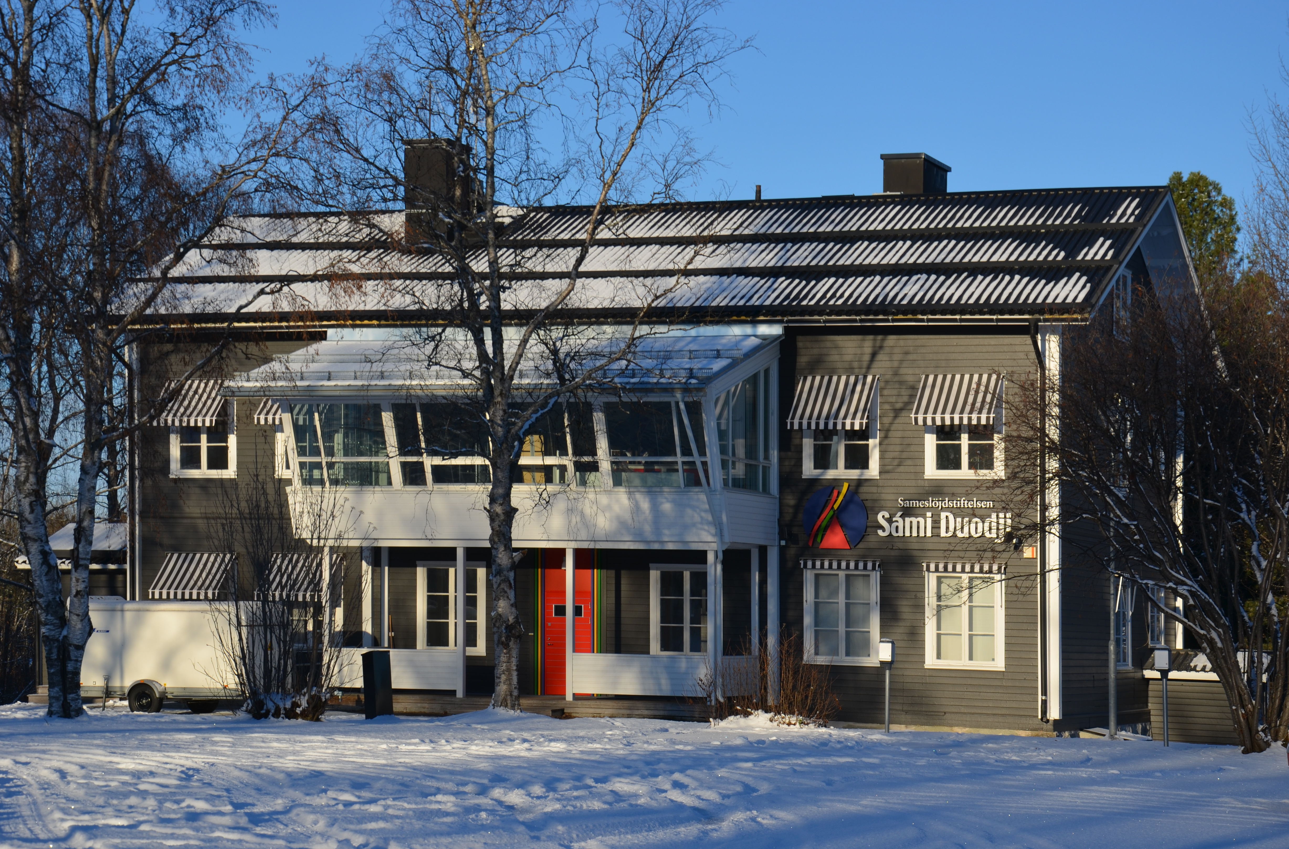 Sameslöjdstiftelsen Sami duodjis hus, Porjusgatan, Jokkmokk